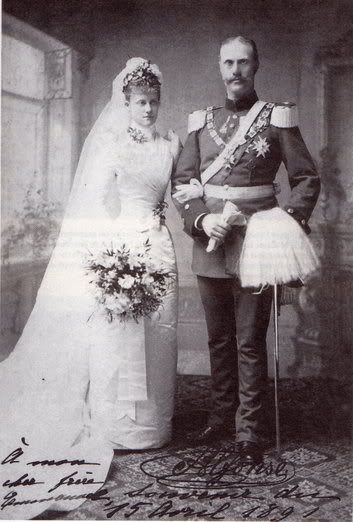 Wedding of Princess Louise of Orléans and Alfons of Bavaria